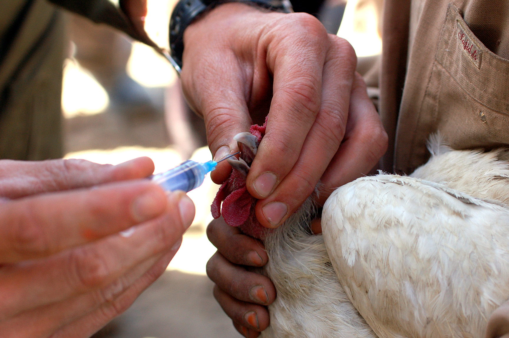 A U.S. Army veterinarian inoculates a chicken with an anti-mite solution at a medical assistance visit to a nomadic village in Paktya, Afghanistan. U.S. Air Force photo by Capt. John Severns Severnjc 17:02, 10 September 2007 (UTC)